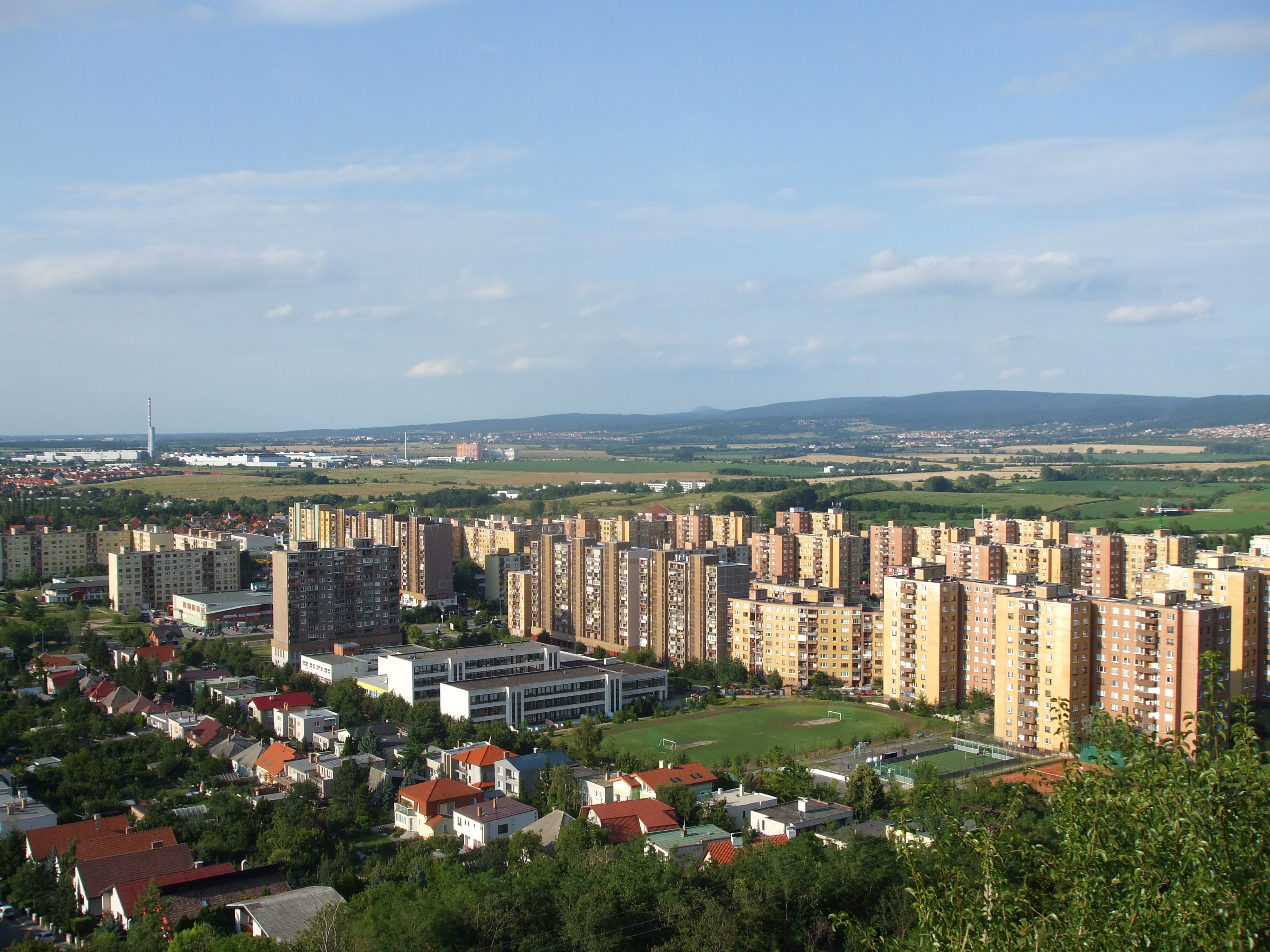 Devinska Nova Ves borough